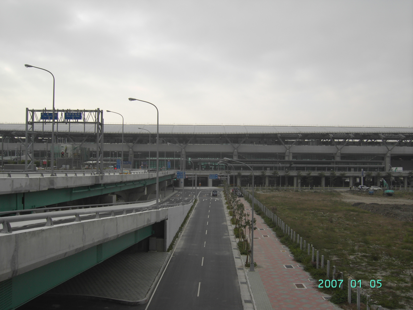 Taiwan High Speed Rail Taichung Station (Taichung, Taiwan) Bân-lâm-gú: Tâi-uân Ko-sok Thih-lōo ê Tâi-tiong-tsām. 臺灣高速鐵路的臺中站。